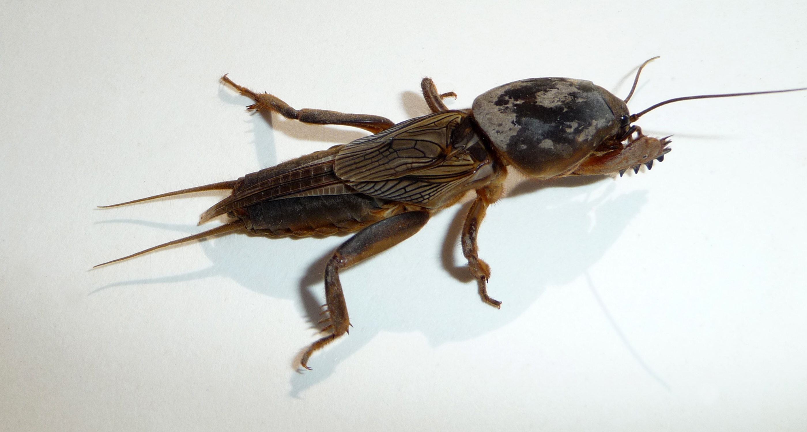 Mole cricket (Gryllotalpa gryllotalpa). Ukraine.